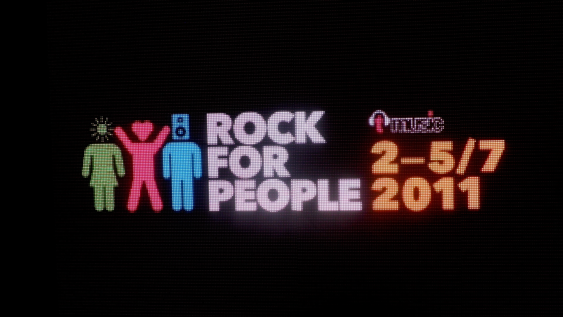 The new logo of Rock for People festival